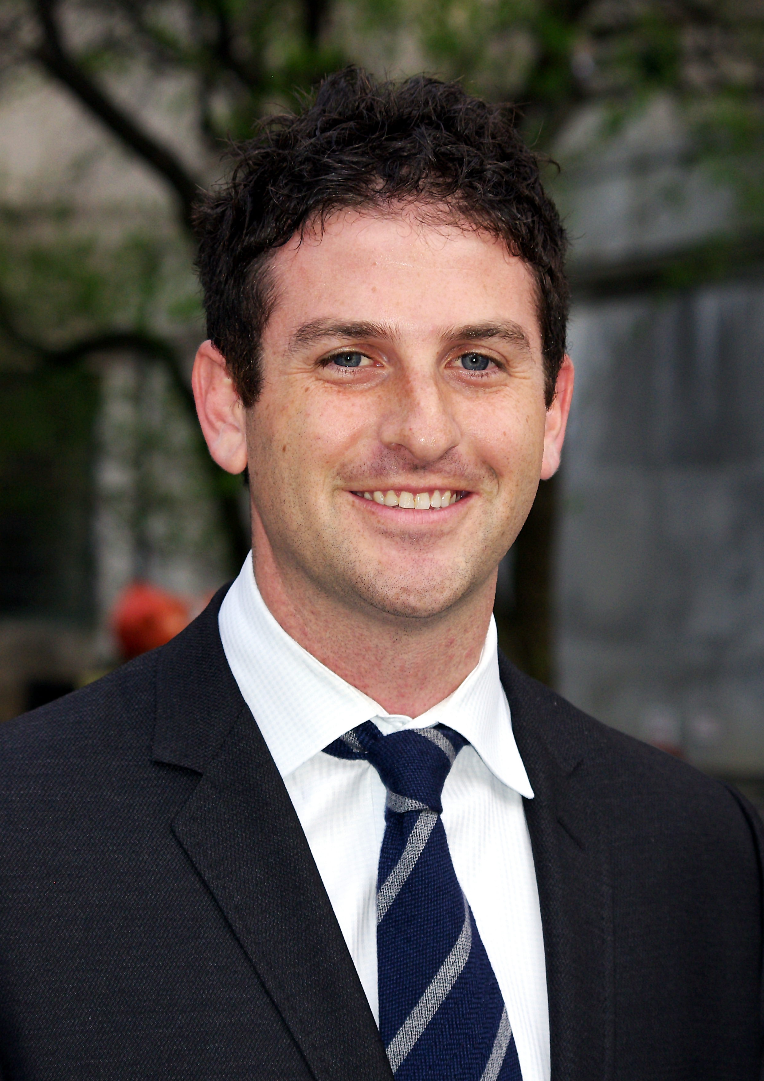 Jared Cohen at the Vanity Fair party celebrating the 10th anniversary of the Tribeca Film Festival.